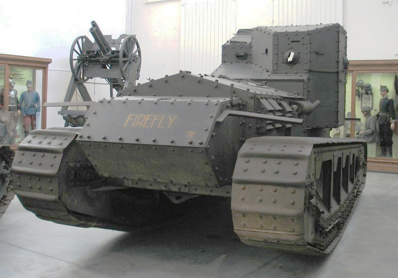 Medium Mark A Whippet tank (A347 Firefly), The Royal Museum of the Army, Brussels